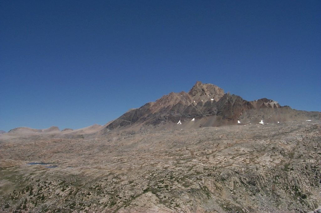 Photograph of Mount Humphreys, Sierra Nevada, California.